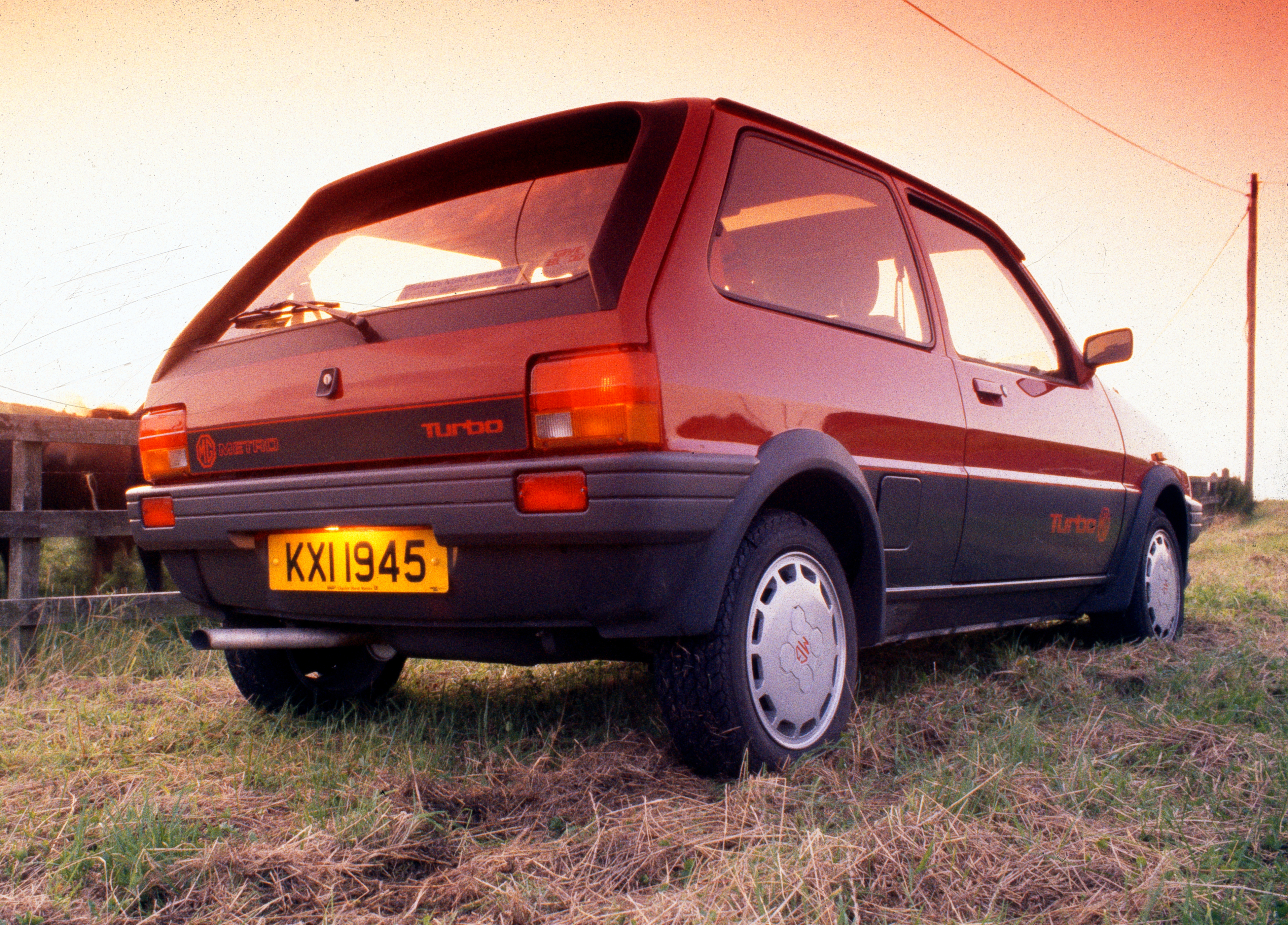 1987 MG Metro Turbo